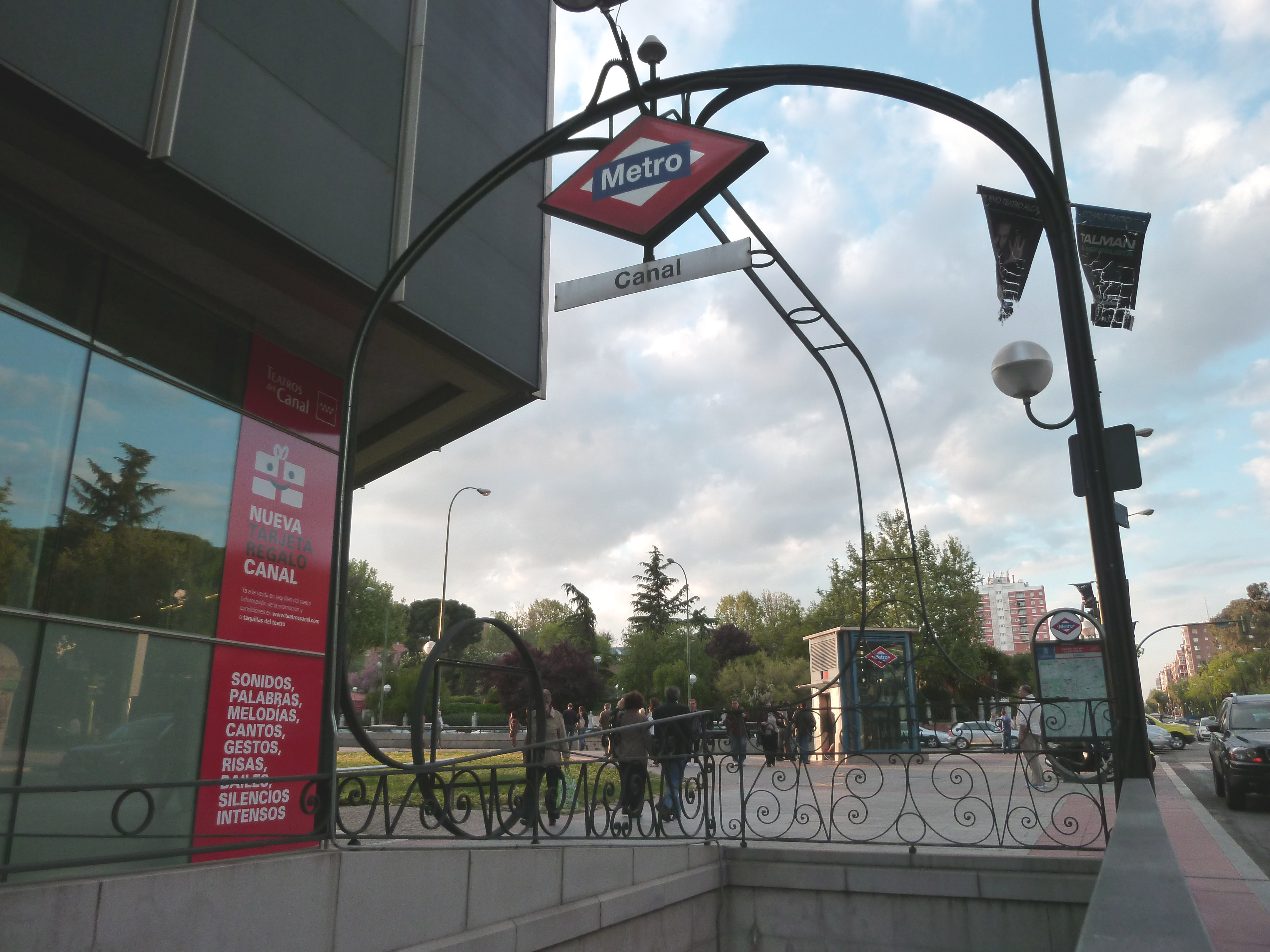 Entrance of Canal metro station in Chamberí district in Madrid (Spain).